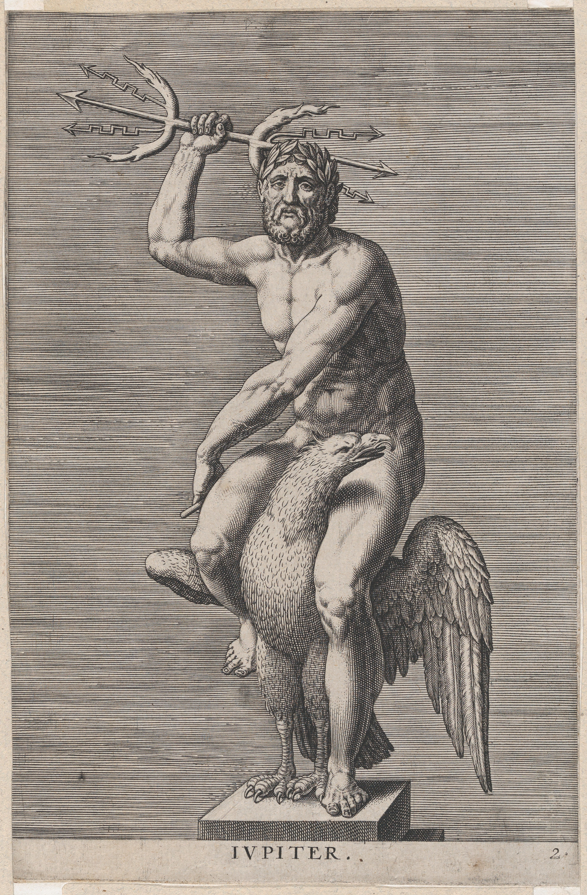 Print, Fete, Ornament & Architecture; Prints